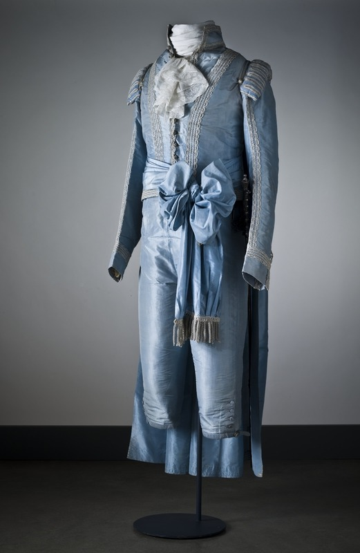 Swedish court dress from the late 18th century.